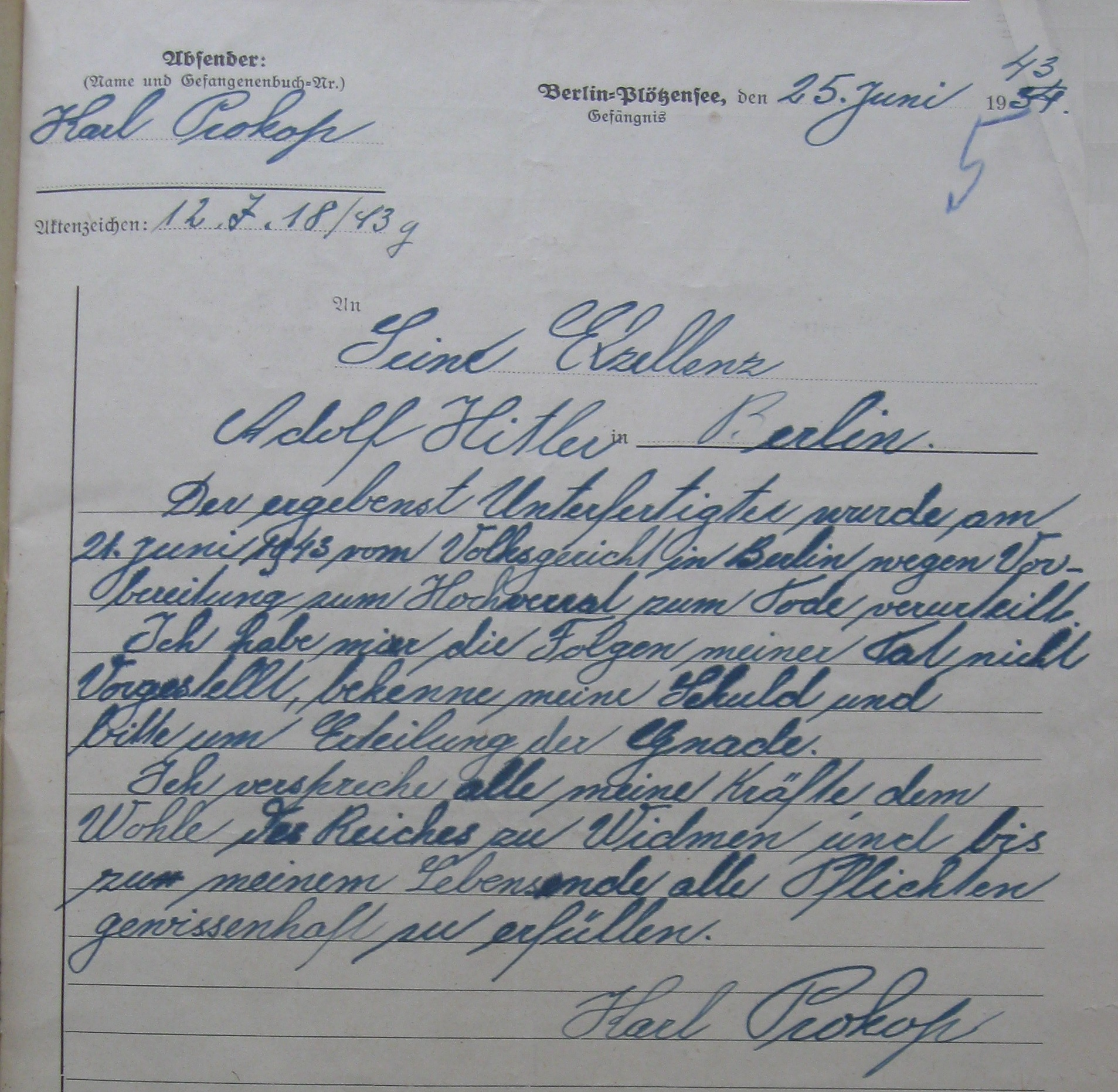 Photocopy of a handwritten (in German language) request of Karel Prokop for pardon addressed to Adolf Hitler in Berlin. The request is dated June 25, 1943. Karel Prokop (1893 - 1943). During the First World War he was a member of the Czechoslovak legions in Russia. During the protectorate he was a chief inspector of the Tax Office and excise taxes and he was also leader of resistance group in Prague (Jinonice) and also he was a deputy commander of an illegal group Vašek-Čeněk. After the gestapo made an attack on the Jinonice excise duty office (4 October 1941) he went underground and he hid himself in around Pilsen, where he used false documents in the name of "Karel Kropáček". Arrested by the Gestapo, July 4, 1942 in Pilsen - Skvrňany. Executed to death on September 8, 1943 in the prison in Berlin-Plötzensee.